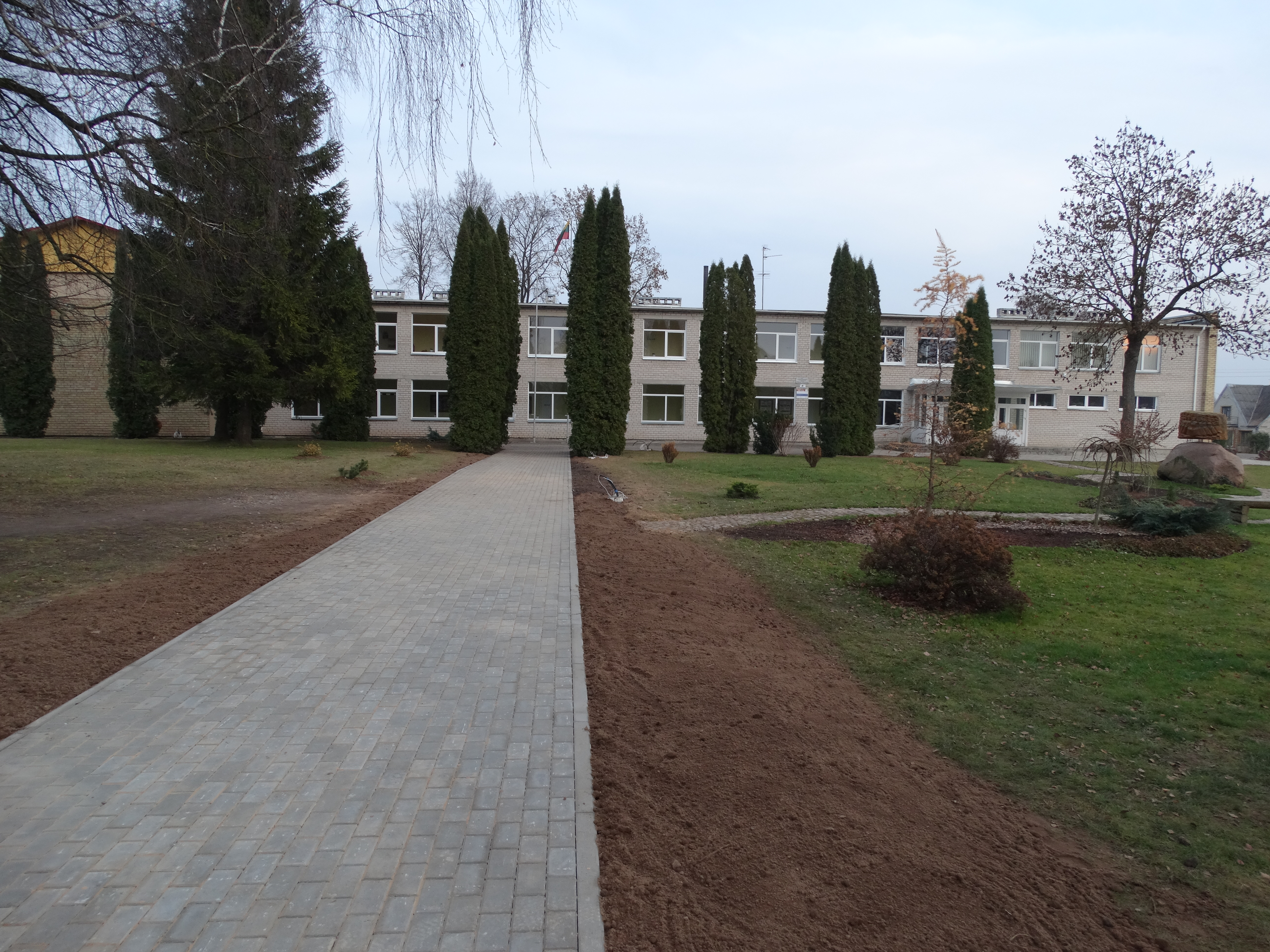 School in Vaškai, Pasvalys district, Lithuania